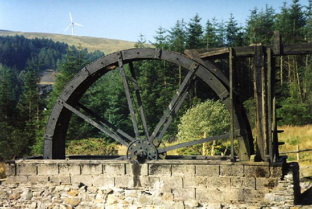 Ponterwyd: Llywernog Silver Lead Mine Museum. High breastshot waterwheel of 1910. All iron, with 8 pairs of arms, cast by Central Foundry, Aberystwyth. On the hill behind, a modern wind turbine